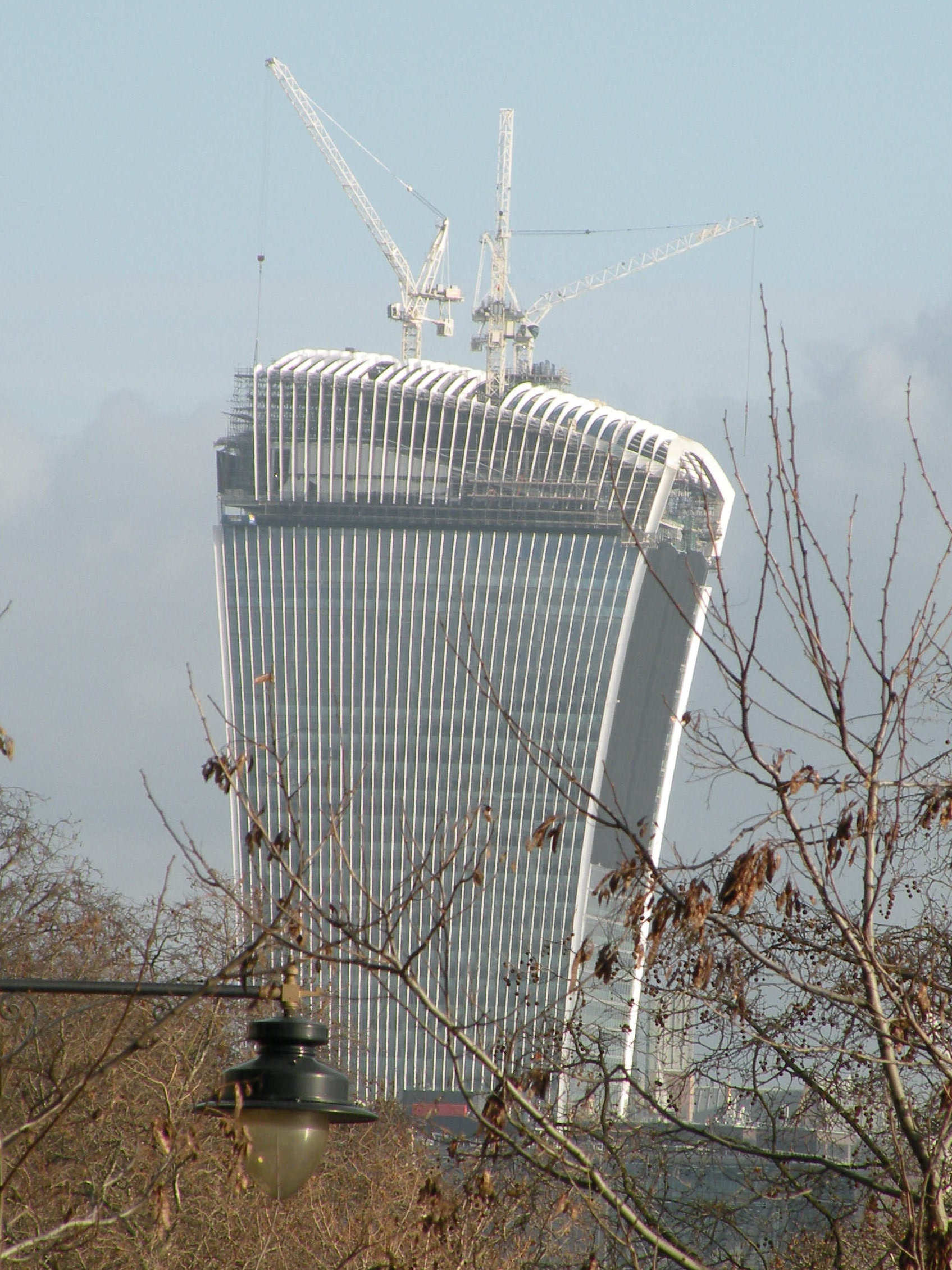 20 Fenchurch Street under construction in January 2014. Photo taken from the Terrace, Somerset House.